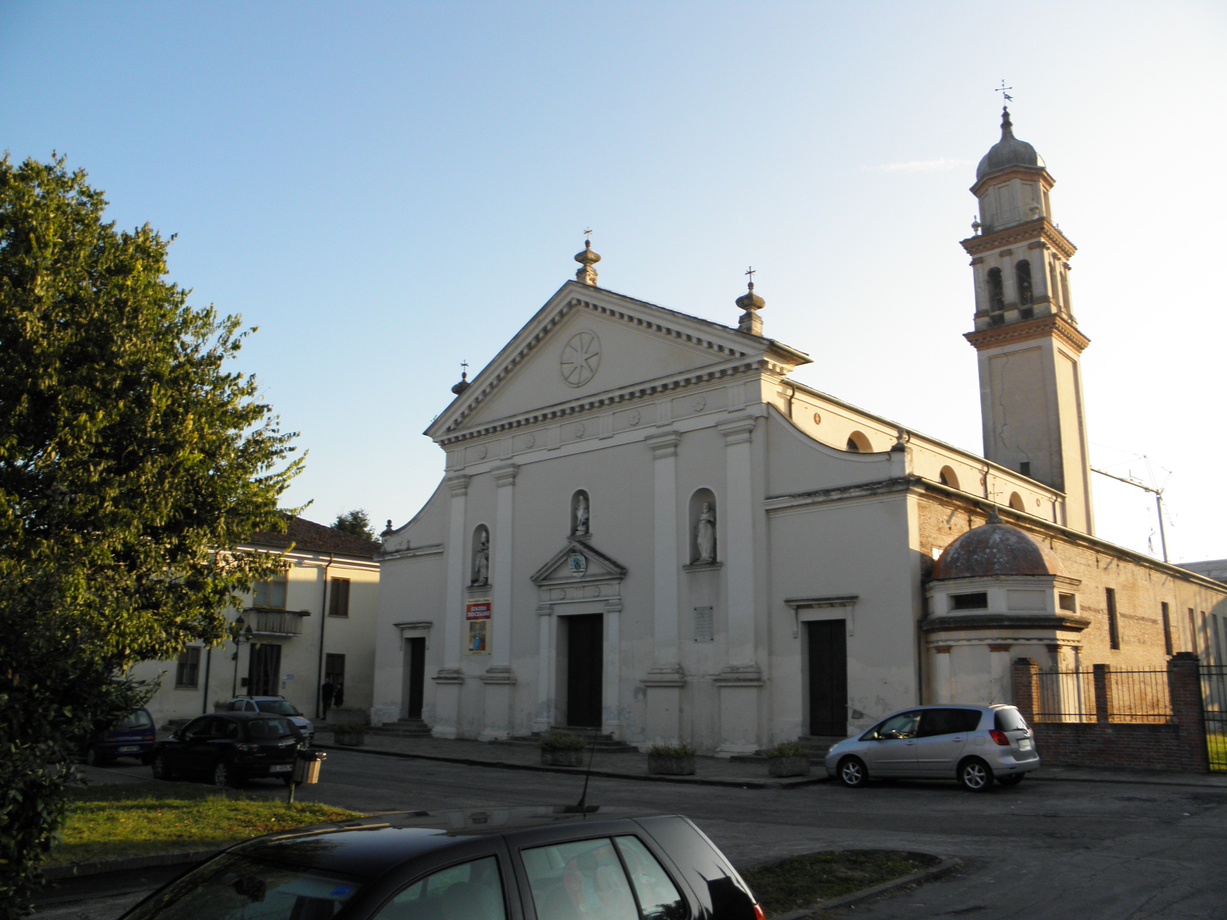 Saint Mary church in Grignano Polesine, village in municipality of Rovigo.